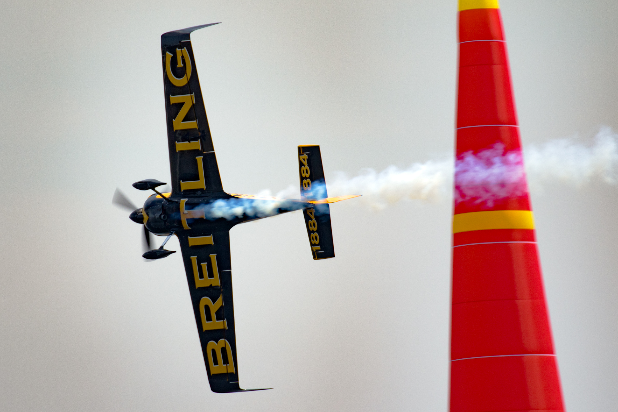 Nigel Lamb